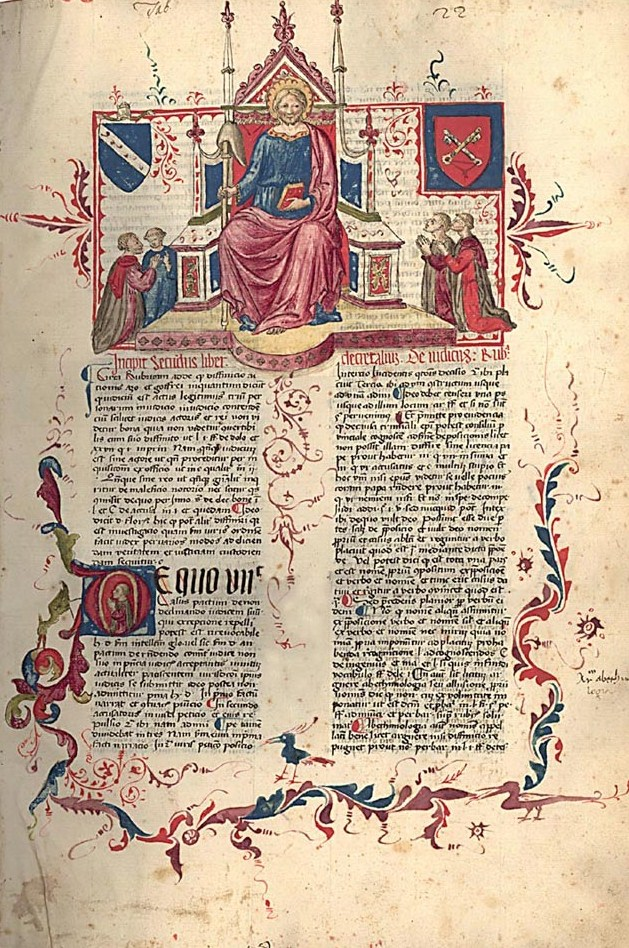 Page from a manuscript commentary on Book II of the Decretals by Johannes de Imola.